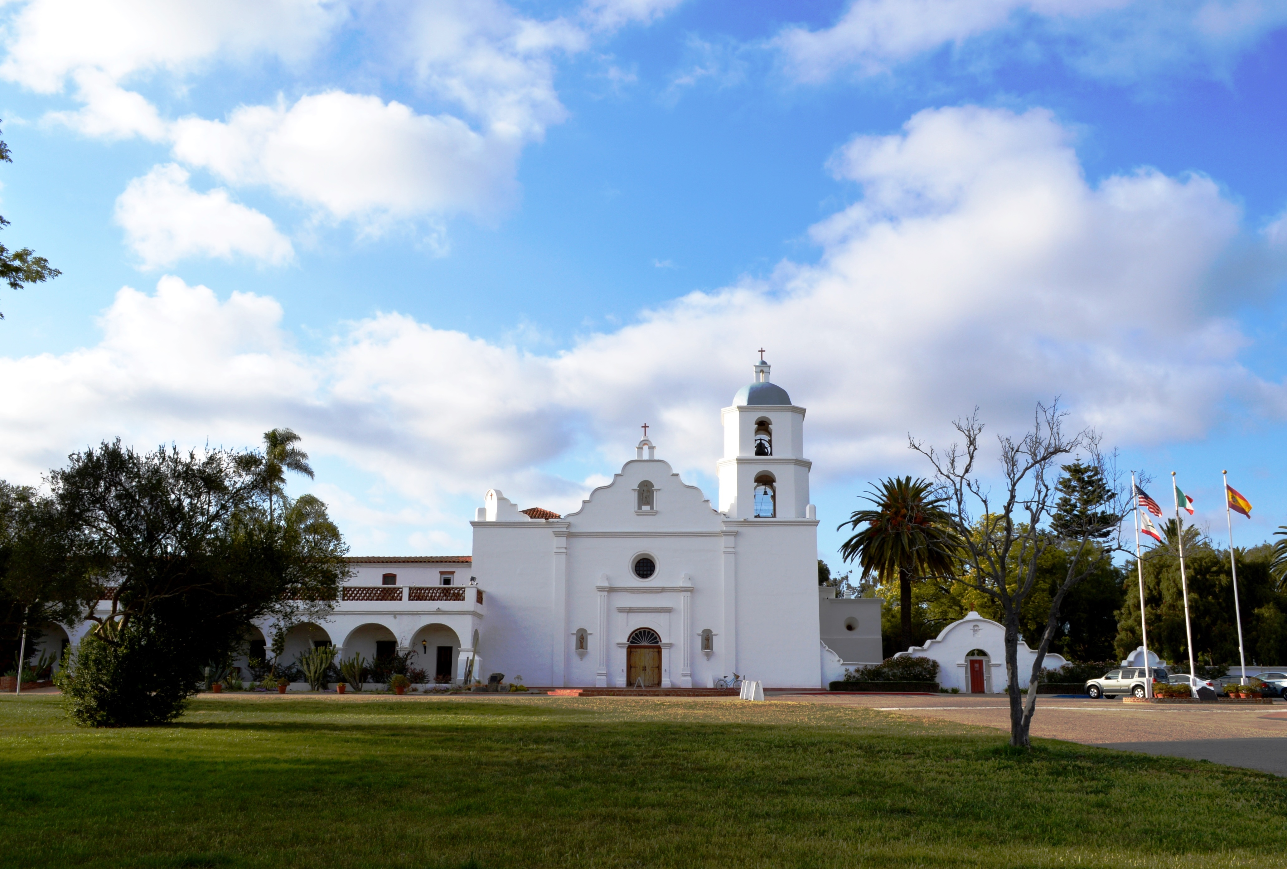 San Luis Rey Mission Church, Oceanside